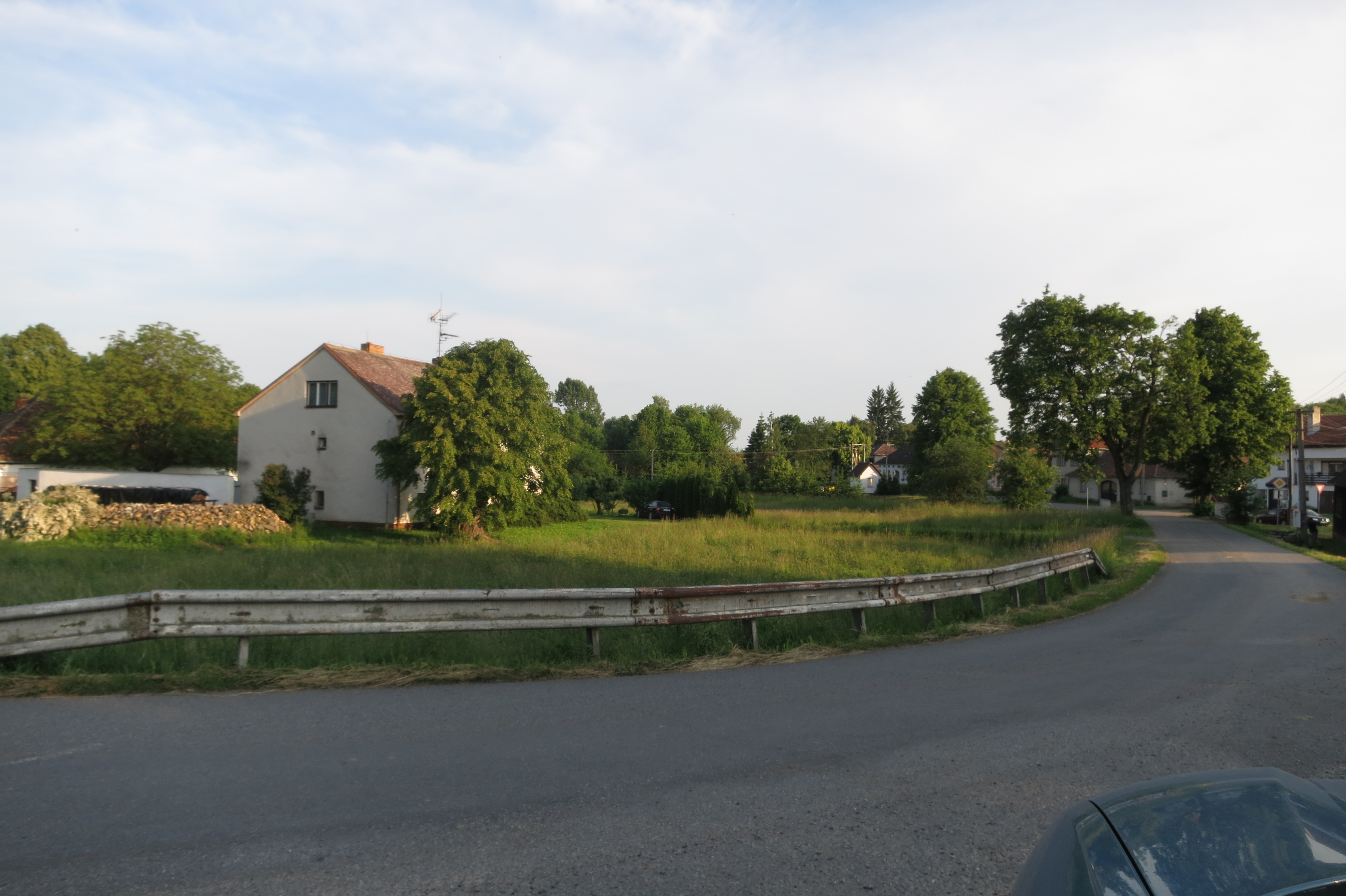 Center of Radotice, Třebíč District.